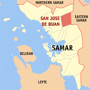 Map of Samar showing the location of San Jose de Buan